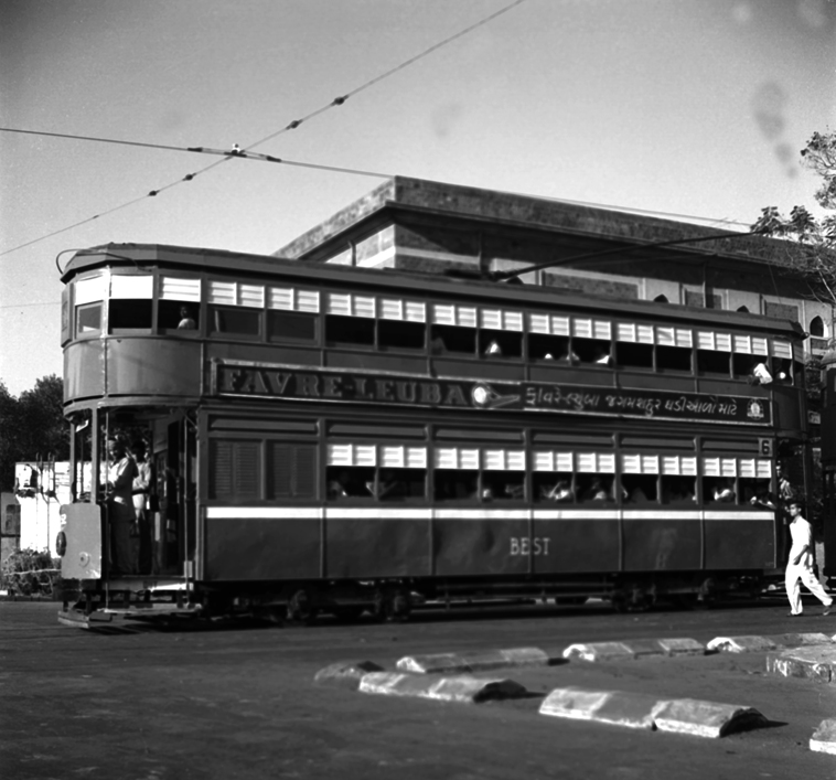 Photo Studio/14/2/1952, A41gThe double deck “Best” tram in Bombay. Photo Number:-25222